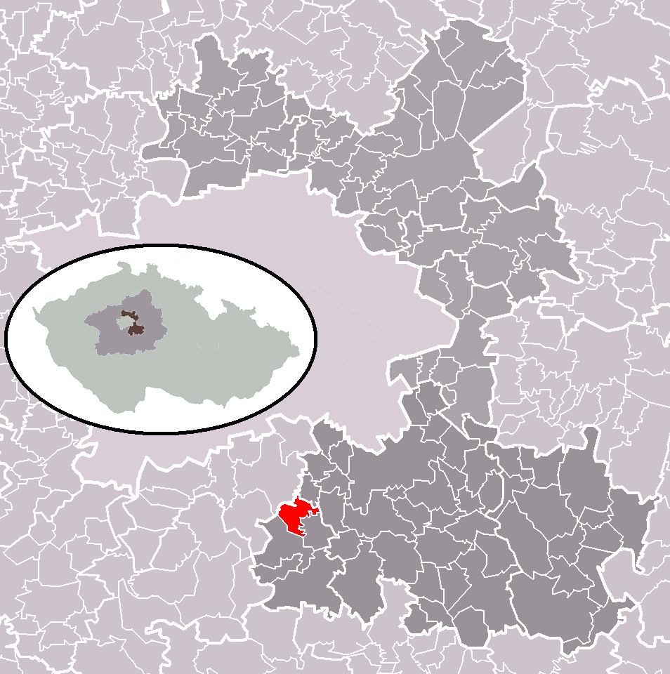 Location of Radějovice municipality within Prague-East District and administrative area of Říčany as a Municipality with Extended Competence.